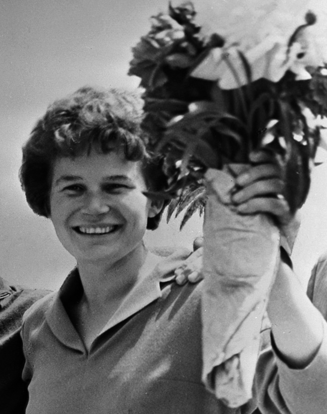 Valentina Tereshkova